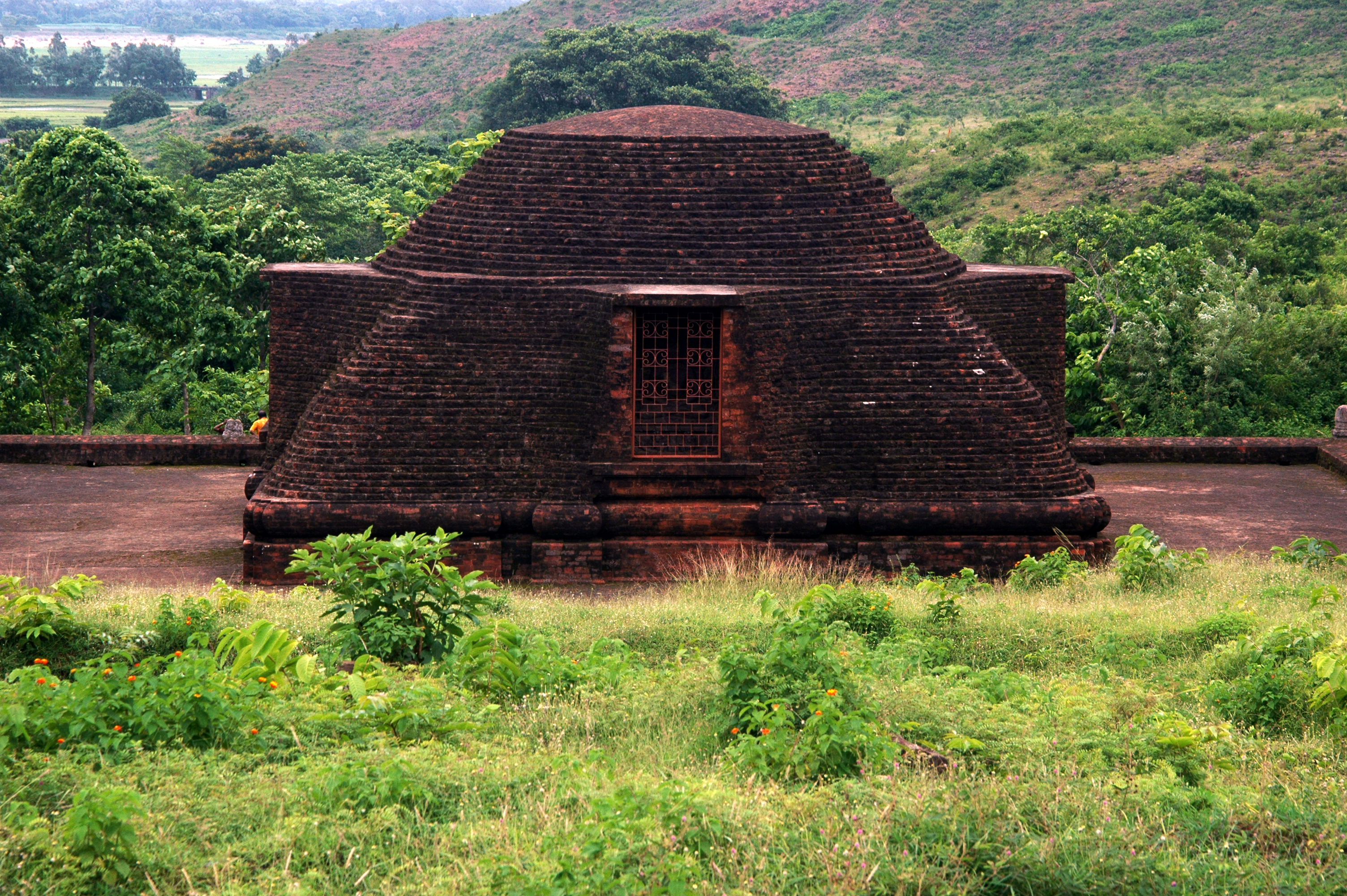 Buddhist site (excavated)